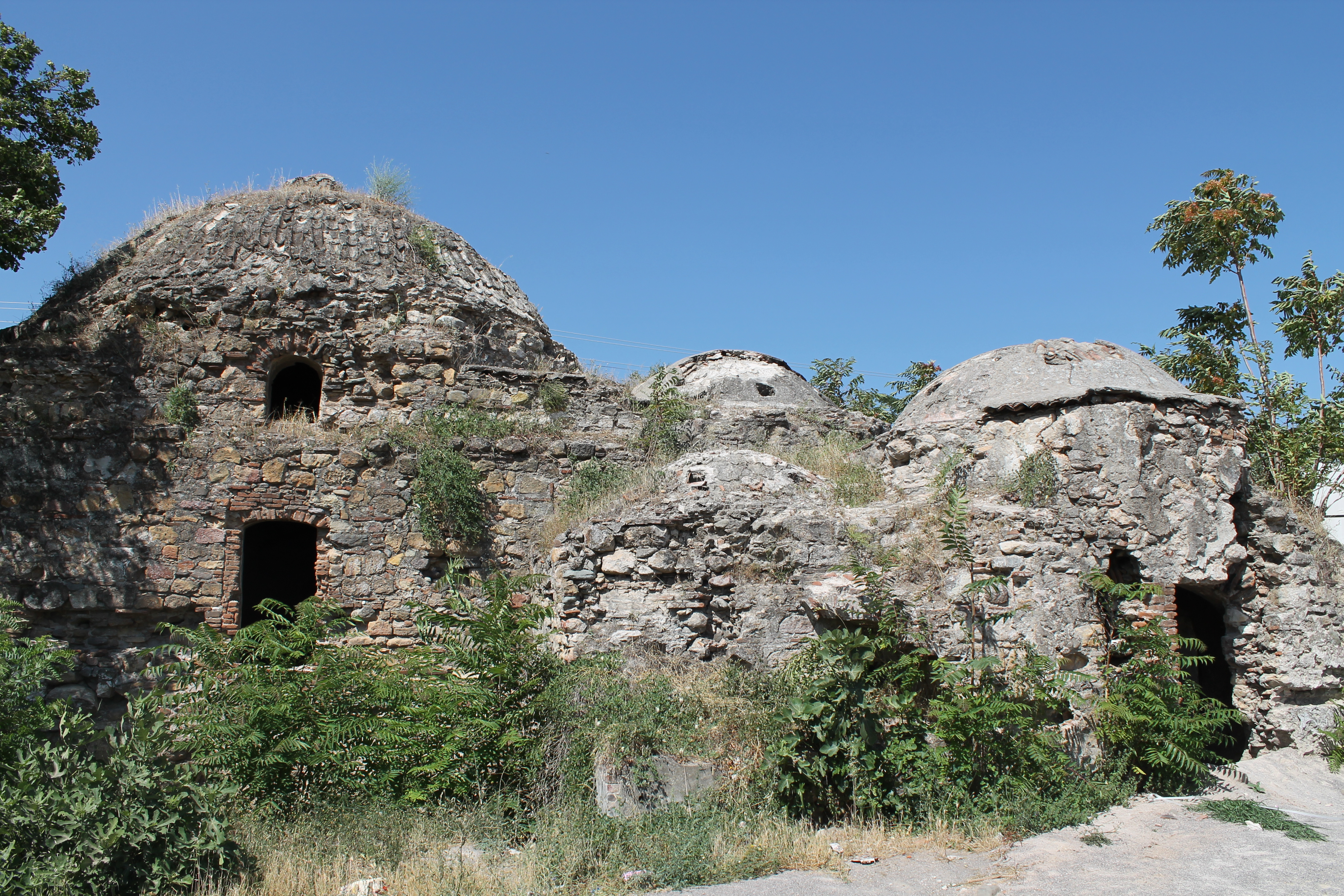 The Ruins of Ottoman Bath in Burhaniye